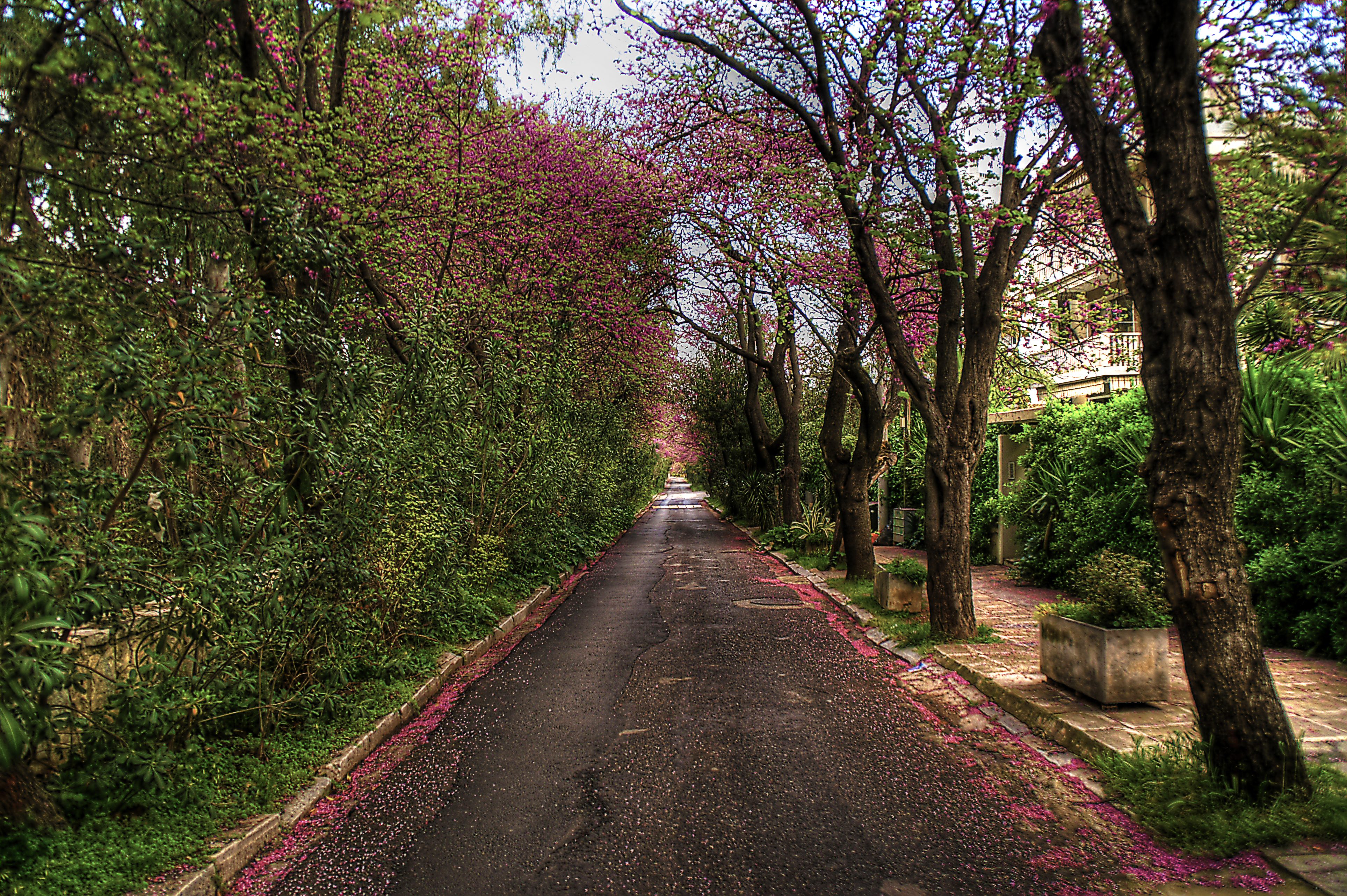 This picture was taken in Filothei on 14/04/2009. The street were it was taken is G. Ventiri